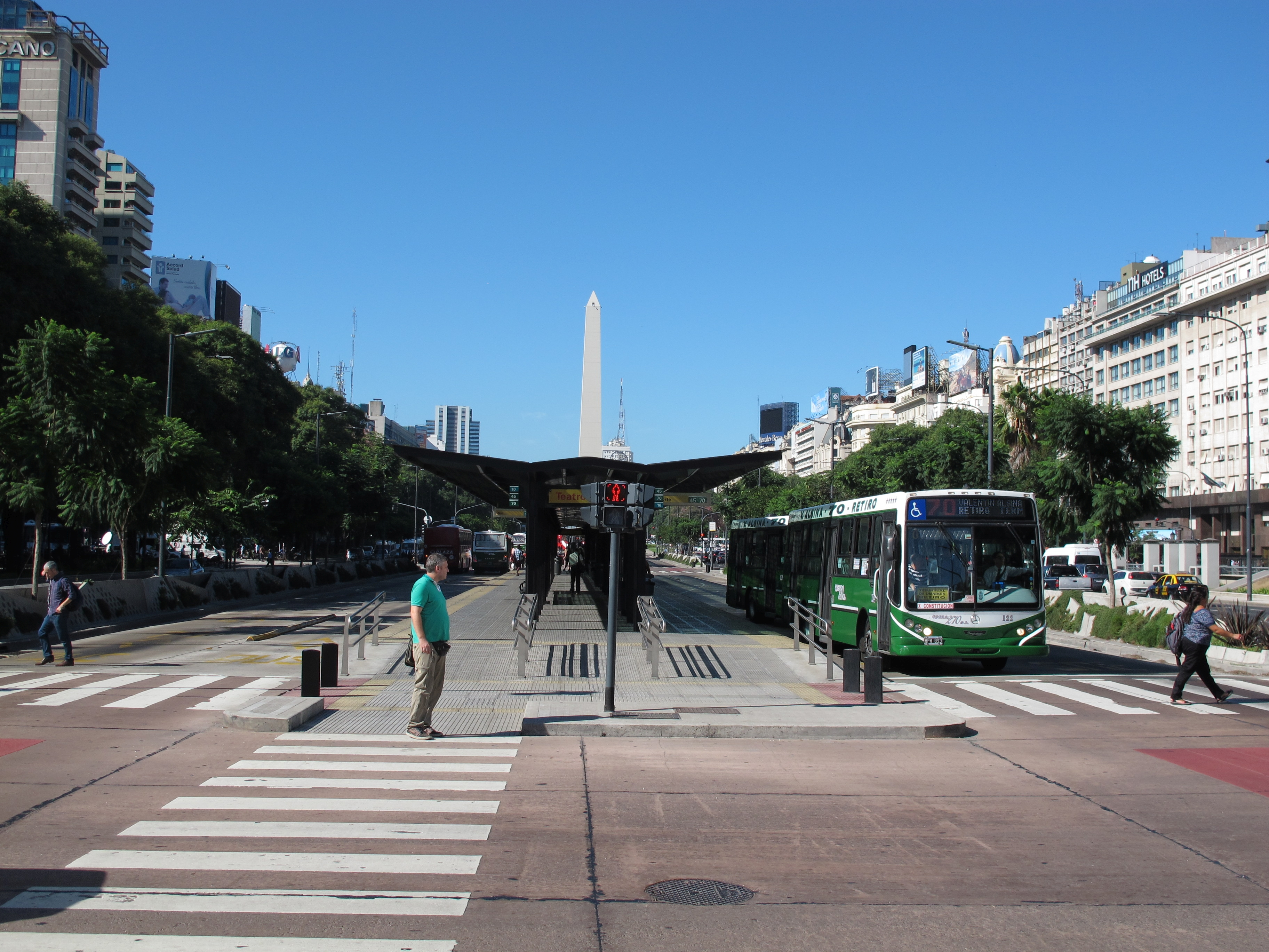 Buenos Aires - Metrobus line along Avenida 9 de Julio